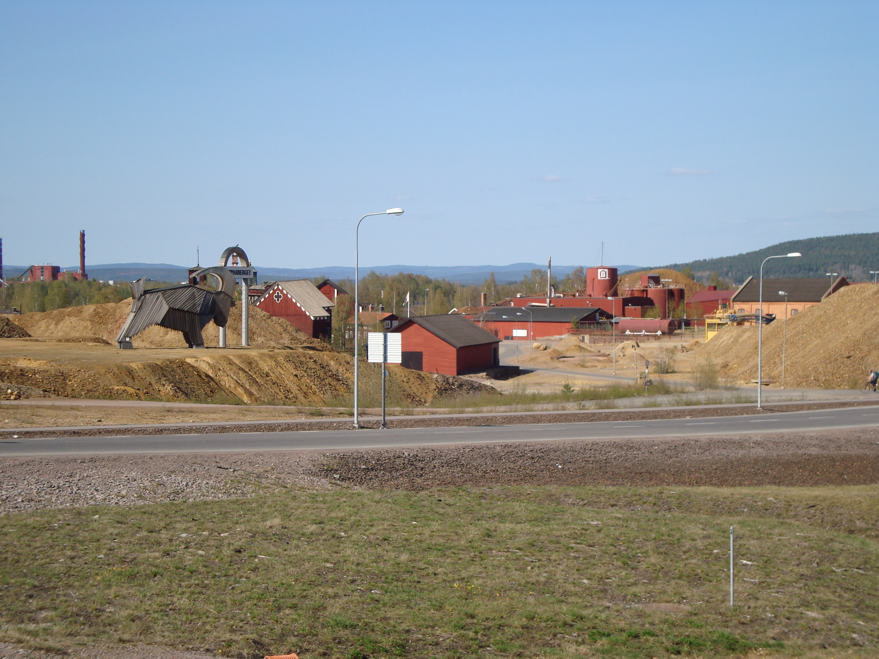 Head quarters and red pigment factory of Stiftelsen Stora Kopparberget, Falun, Sweden